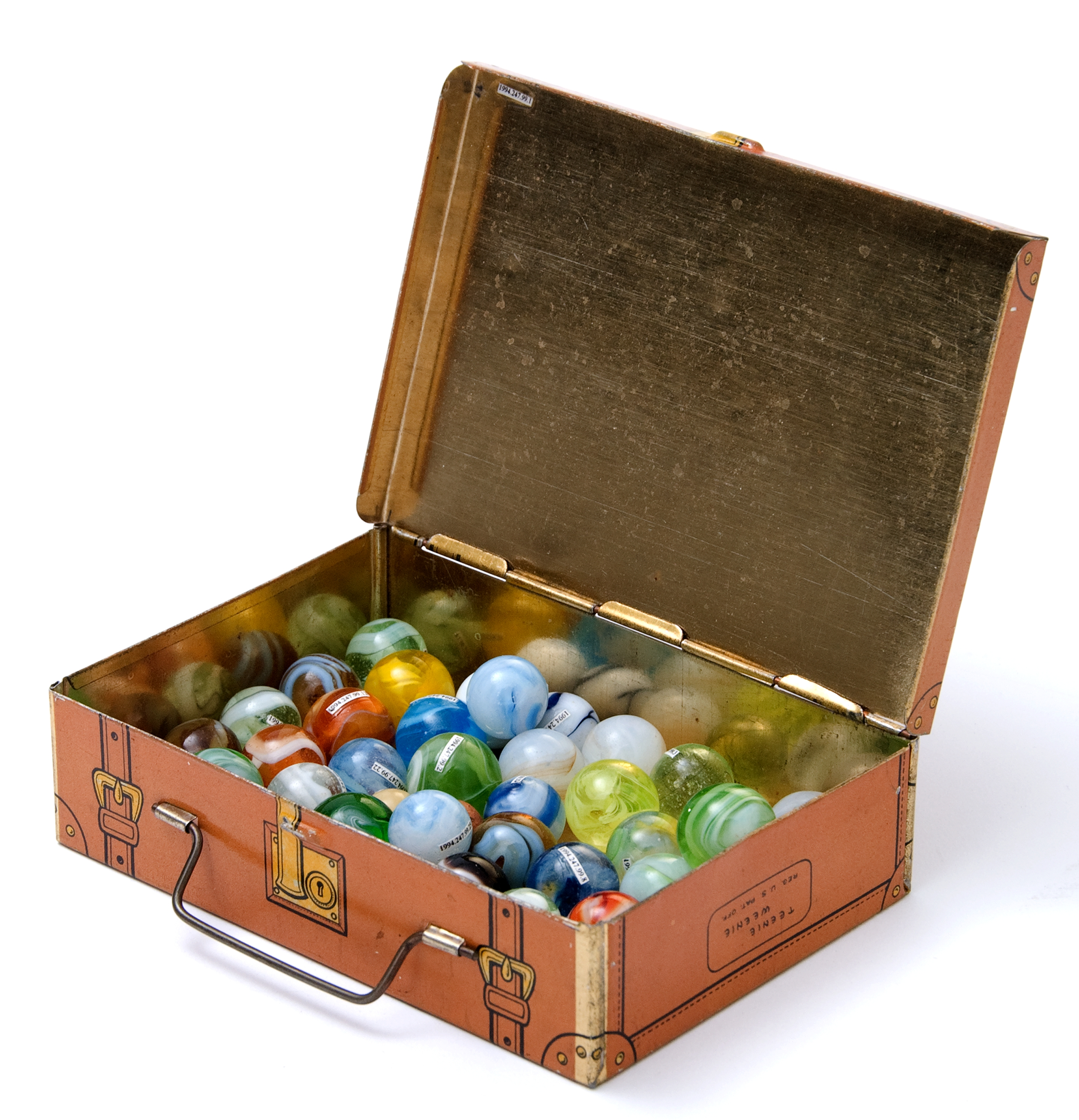 (1994.247.99) Metal box with 43 glass marbles, manufacturer unknown, ca. 1922. On display at Minnesota's Greatest Generation exhibit at the Minnesota History Center.